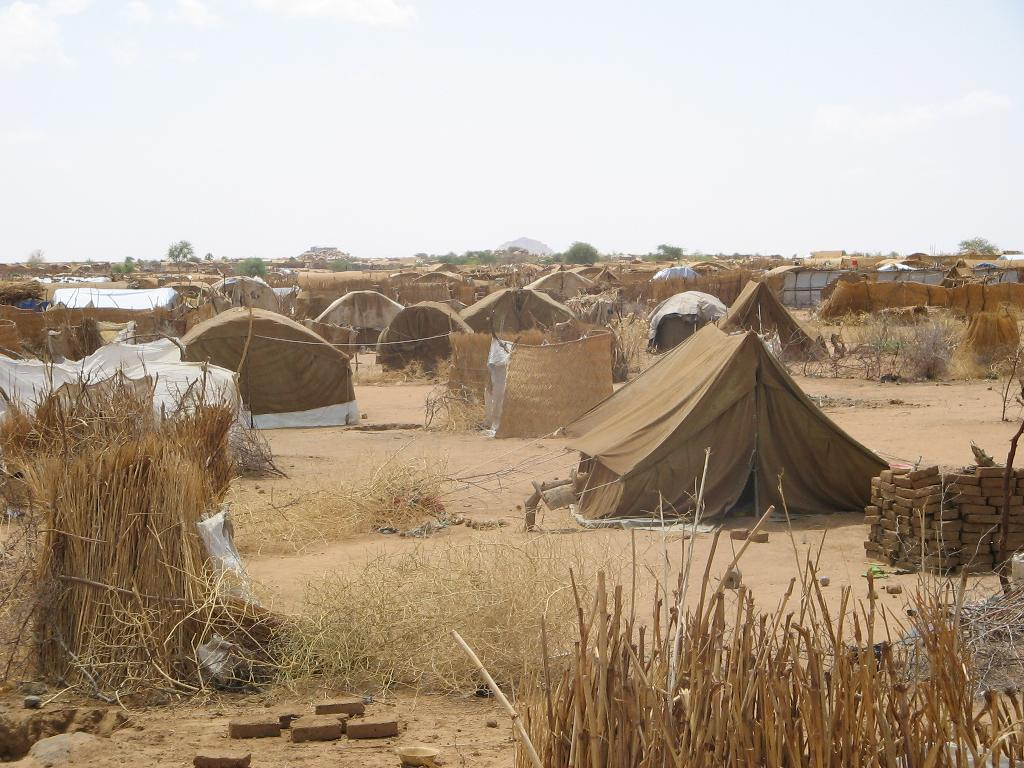 Photo taken during a fact finding mission in a refugee camp, in Chad.